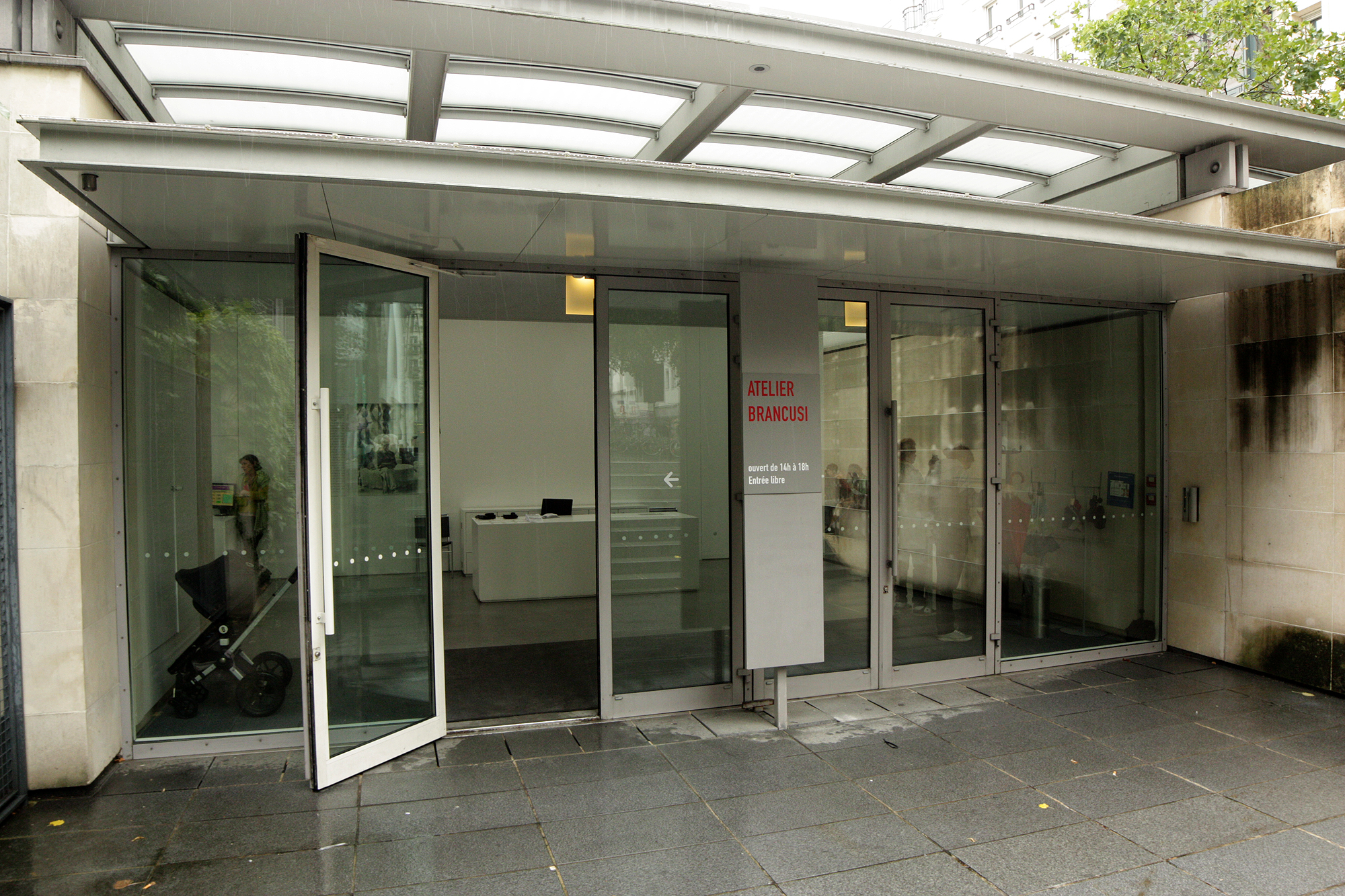 Atelier Brancusi entrance, Paris, France